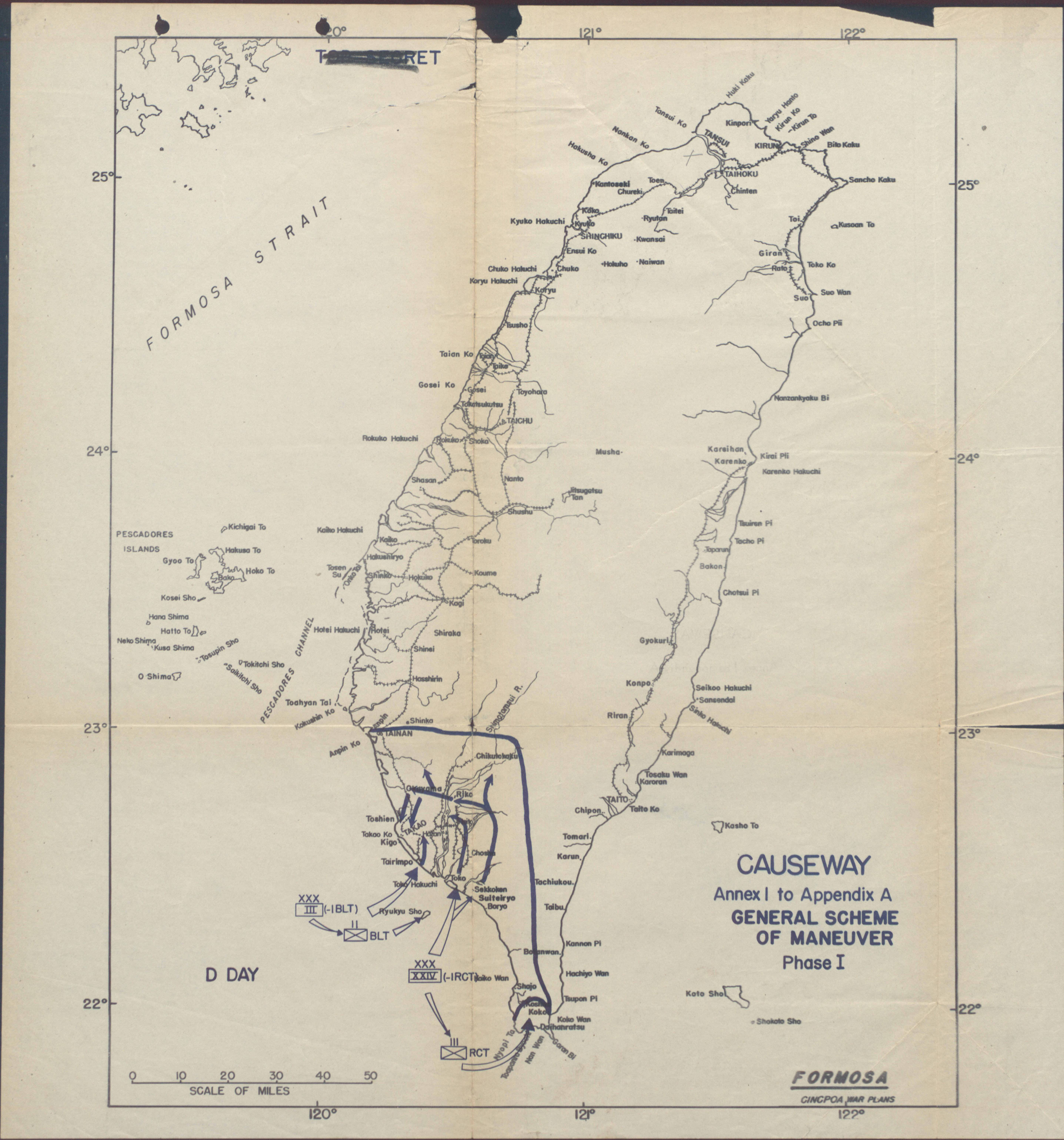 Map of Formosa prepared by the US Navy used for Operation Causeway, whose goal was occupying Formosa during WWII.